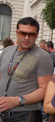 Description: British actor Tamer Hassan at the Gumball 3000 Rally in London 2007 Photo taken by John Griffiths.